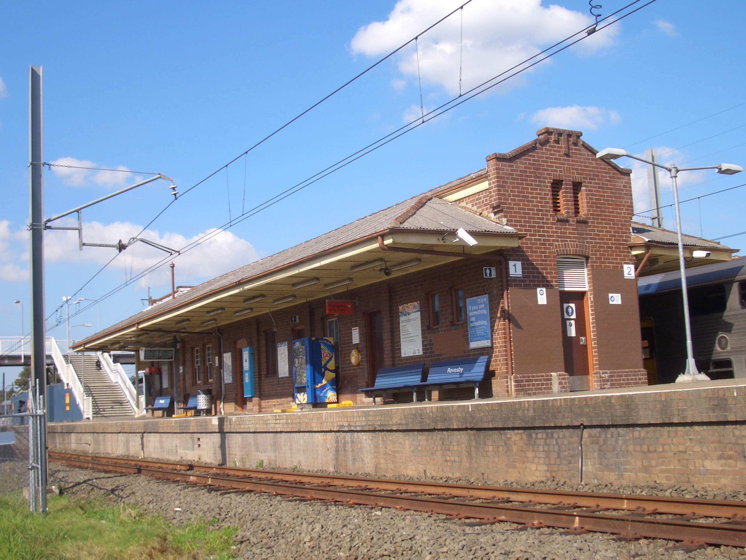 Revesby Railway Station. The footbridge has since been replaced.